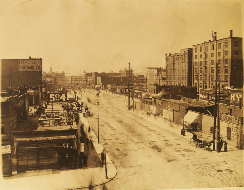 St. Louis, 12th St. From Washington Ave. South, 1892